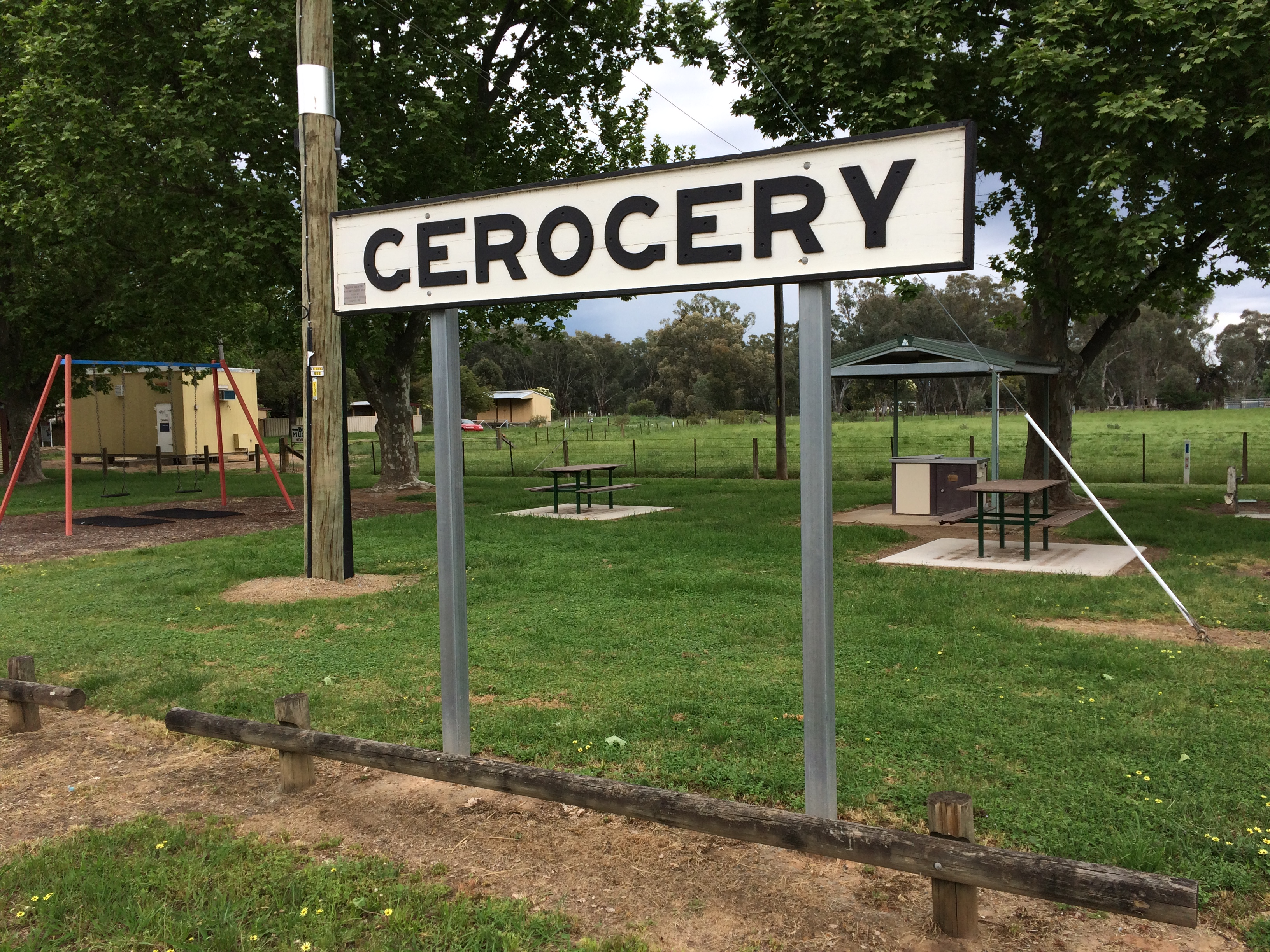 Gerogery railway station sign located in a park, once was located at the site of the station.